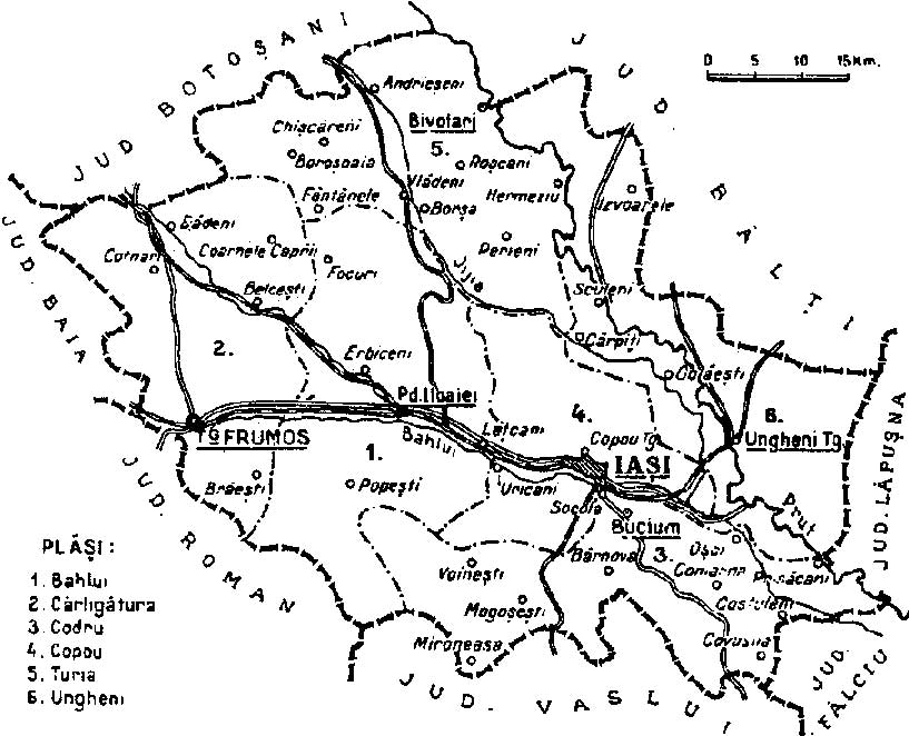 Map of Iași interwar county, Kingdom of Romania (1938).